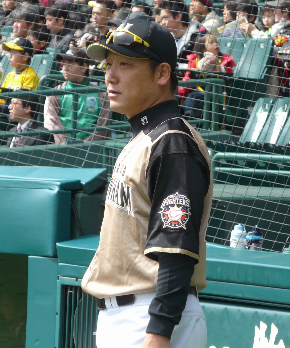 NF-Satoshi-Nakajima20120310